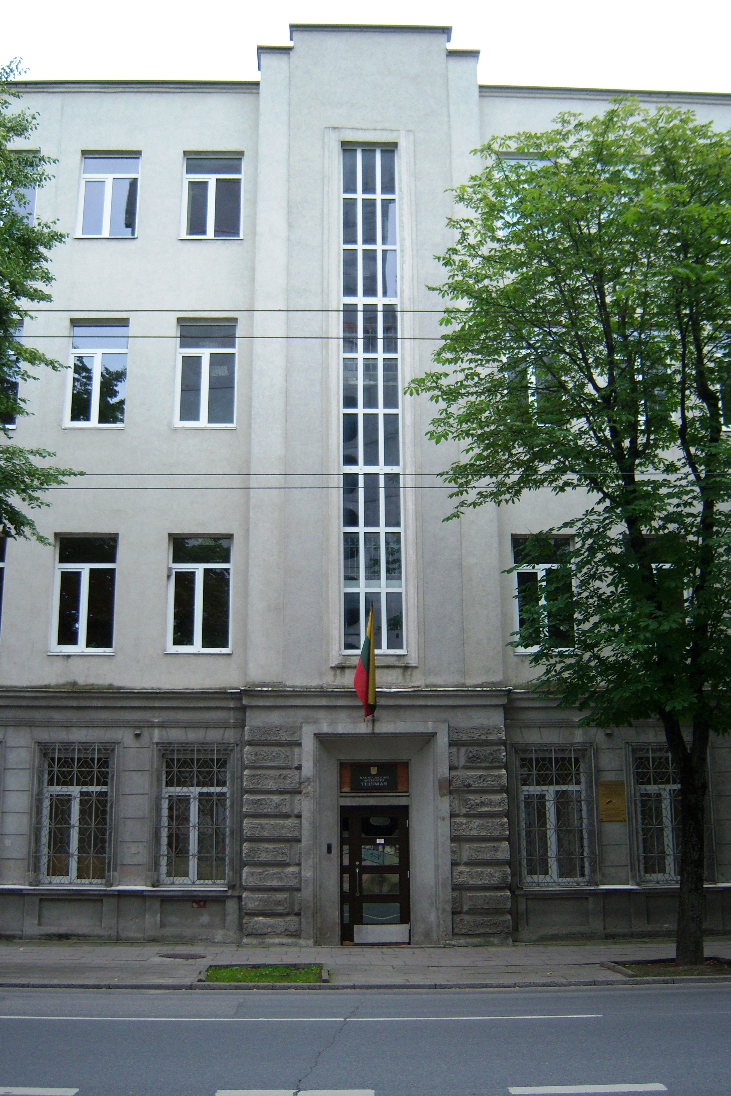 Kaunas District Court, Lithuania